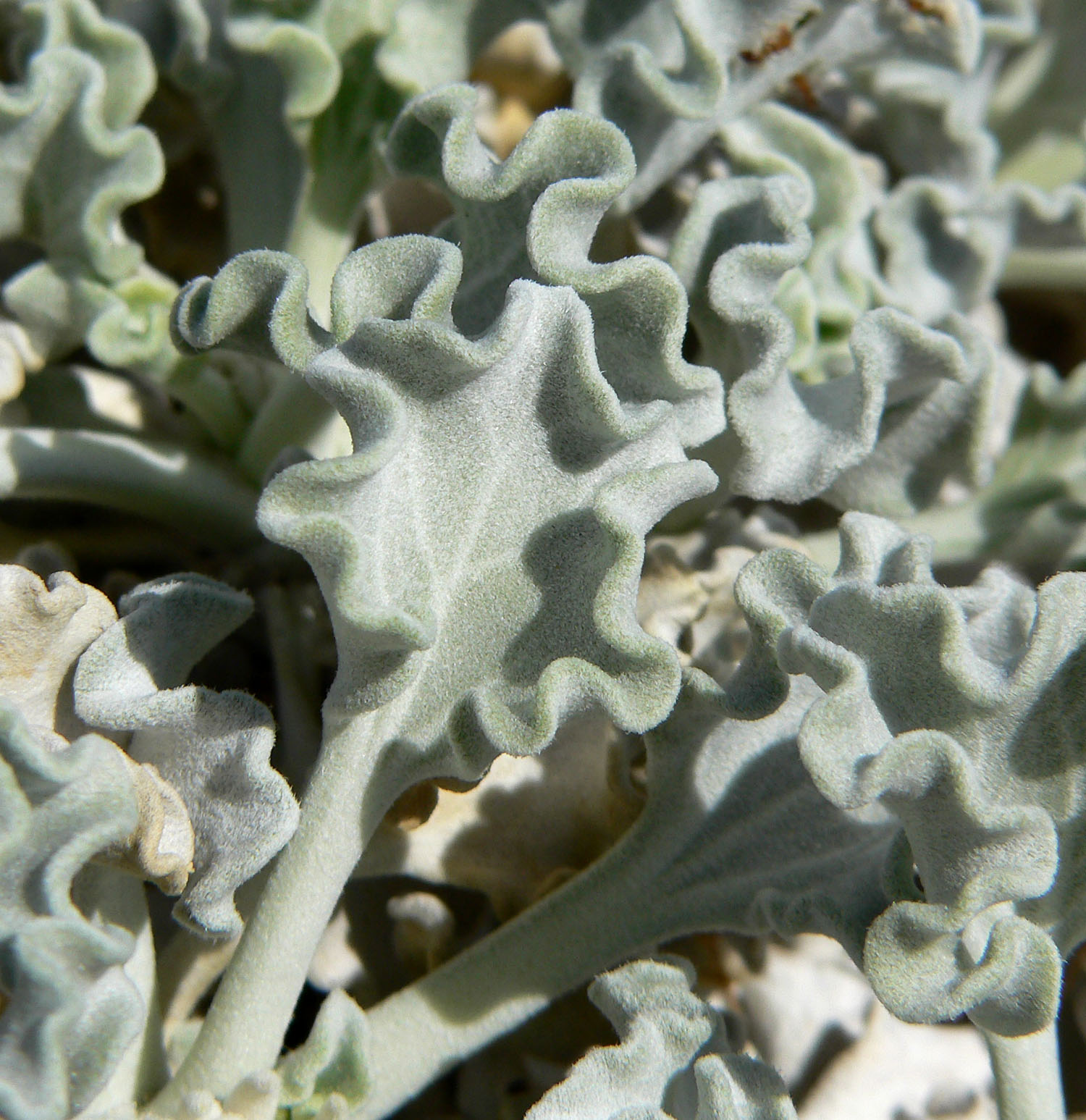 Enceliopsis nudicaulis var. corrugata in gypsum area about 600m SSW of Devils Hole, Ash Meadows, southern Nevada